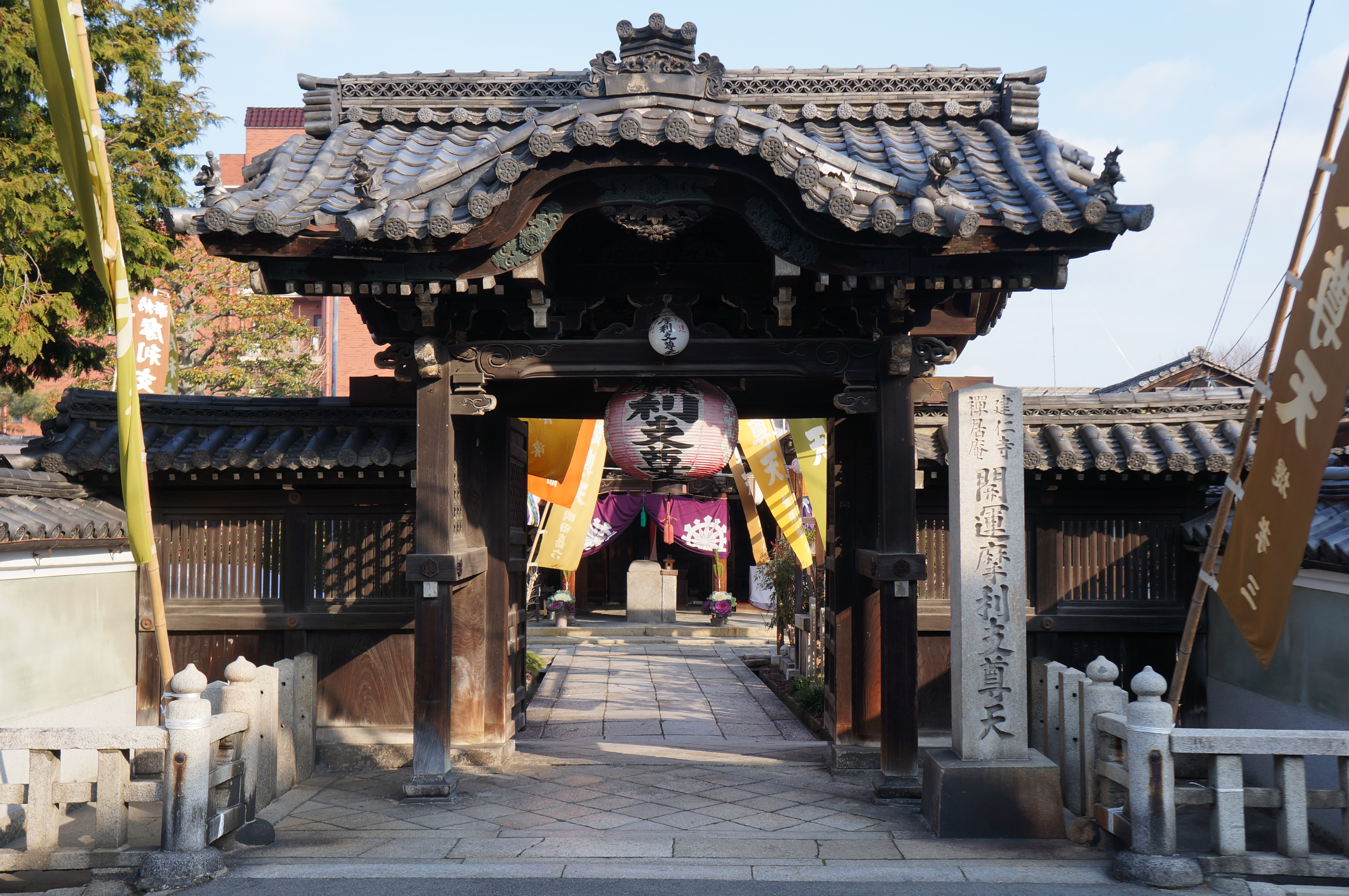 Zenkyoan in Higashiyama-ku, Koyoto